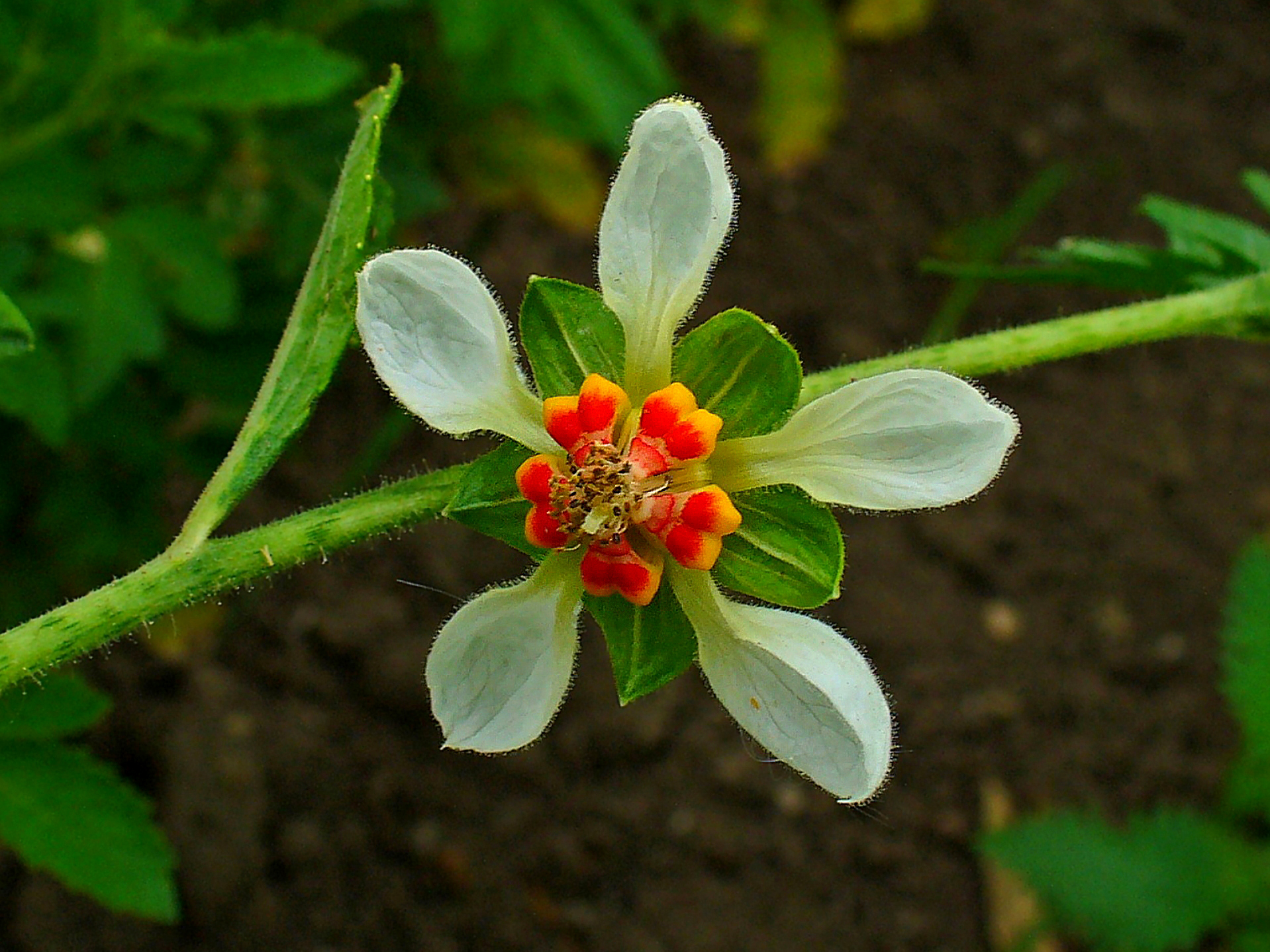 Loasa vulcanica, Loasaceae, flower. Botanical Garden KIT, Karlsruhe, Germany.